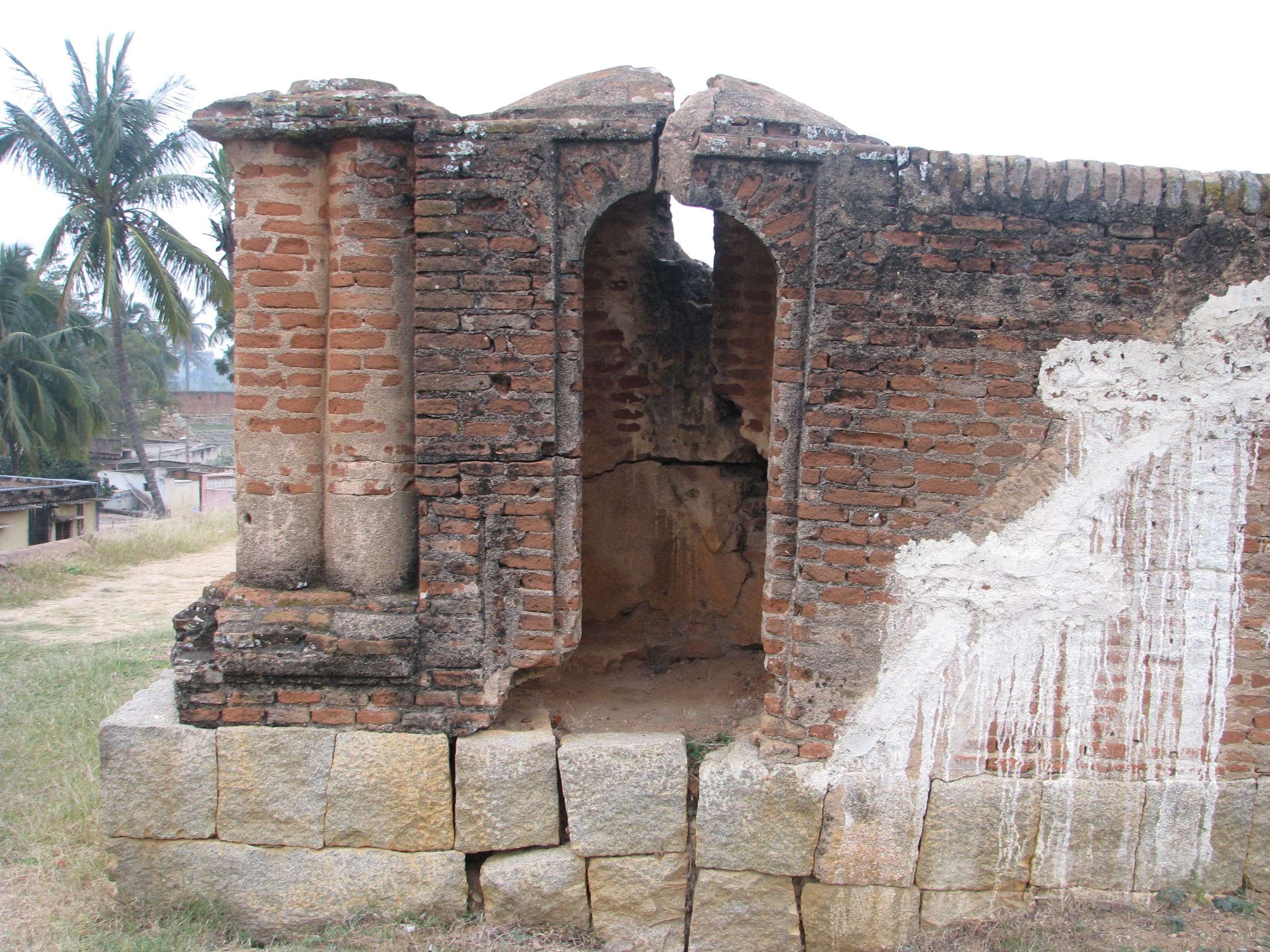 Devanahalli Fort